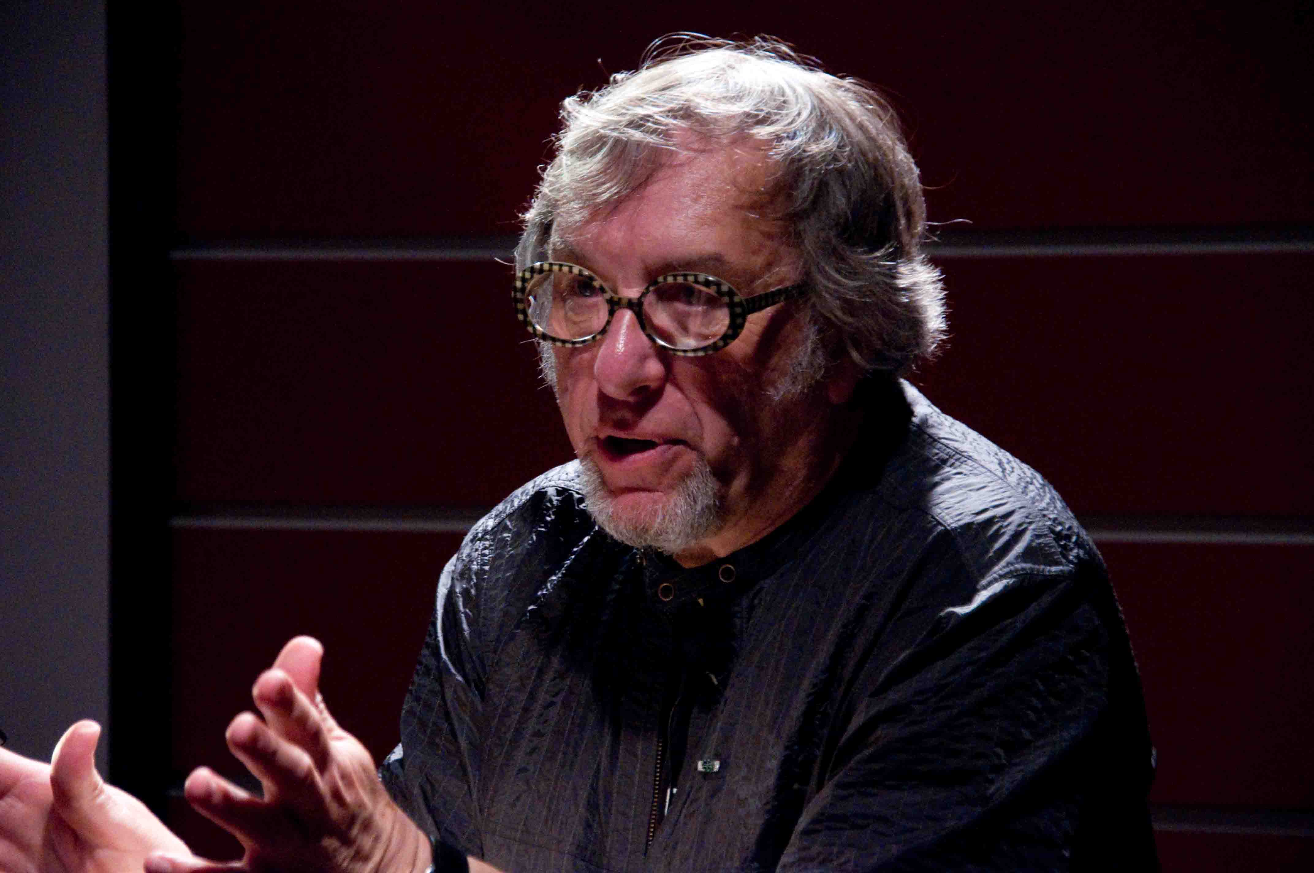 Joel Peter Witkin in SP-Photofest Brasil